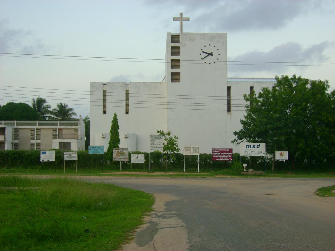 Mtwara town, Tanzania